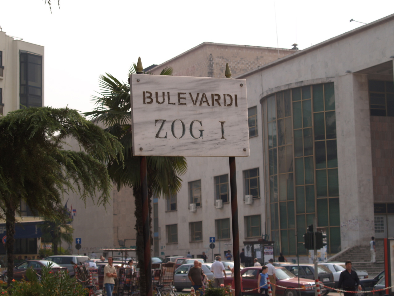 Street sign of Bulevardi Zog I in Tirana, Albania